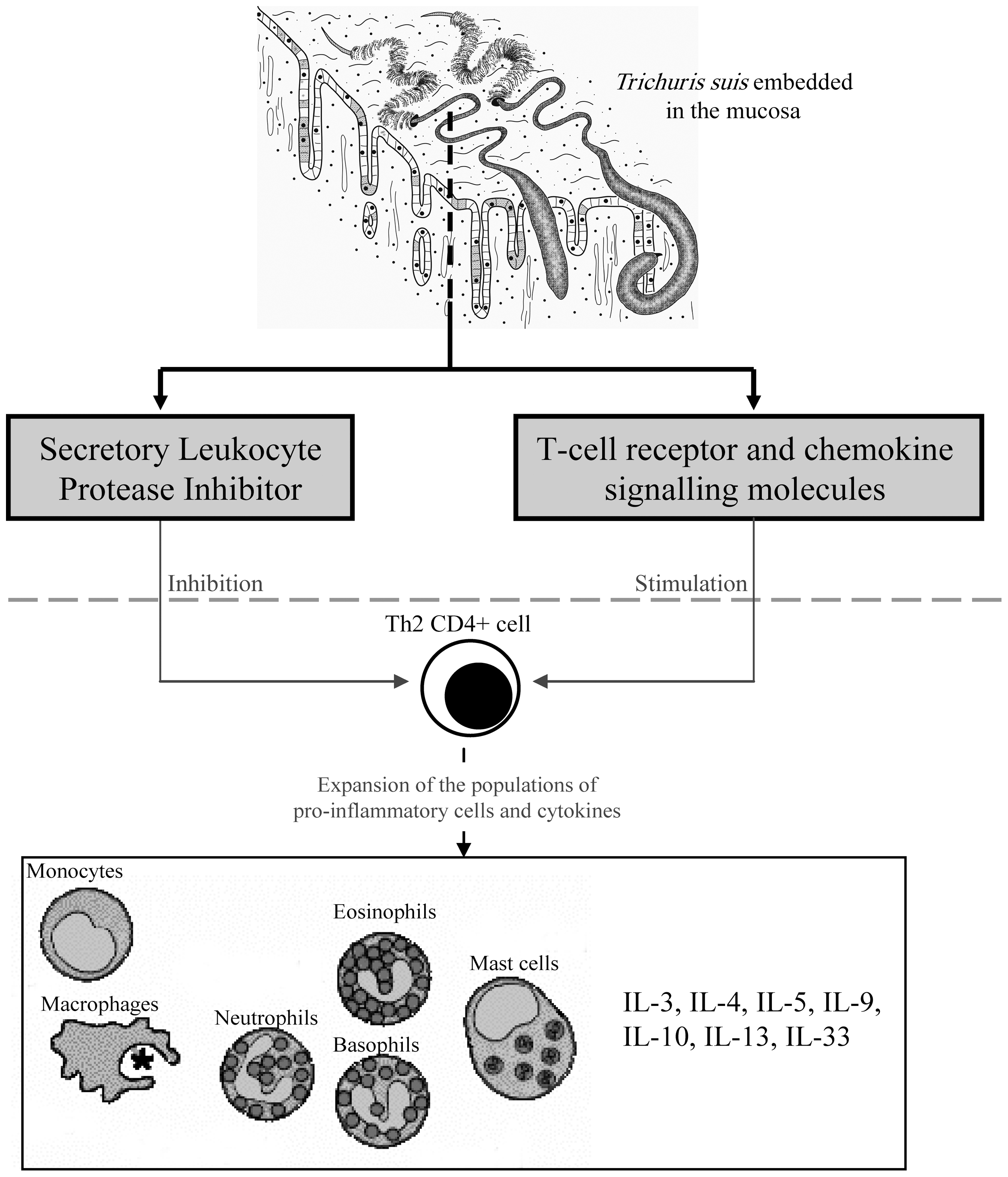 Cascade of immuno-molecular events hypothesized to lead to the modulation of immune response in Trichuris suis-infected humans. Molecules linked to the T-cell receptor and chemokine signalling pathways could be involved in the stimulation of the Th2-type immune response, which, in turn, stimulates the expansion of populations of pro-inflammatory cells and cytokines. T. suis homologues of secreted leukocyte protease inhibitors (SLPIs) could inhibit hyper-responsiveness of the immune system by down-regulating the activity of Th2-type cells.